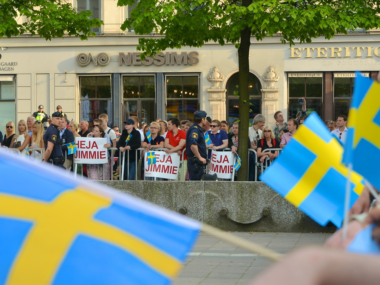 Sympathizers of the Sweden Democrats party leader Jimmie Åkesson who speaks on Norrmalmstorg in Stockholm May24, 2014.